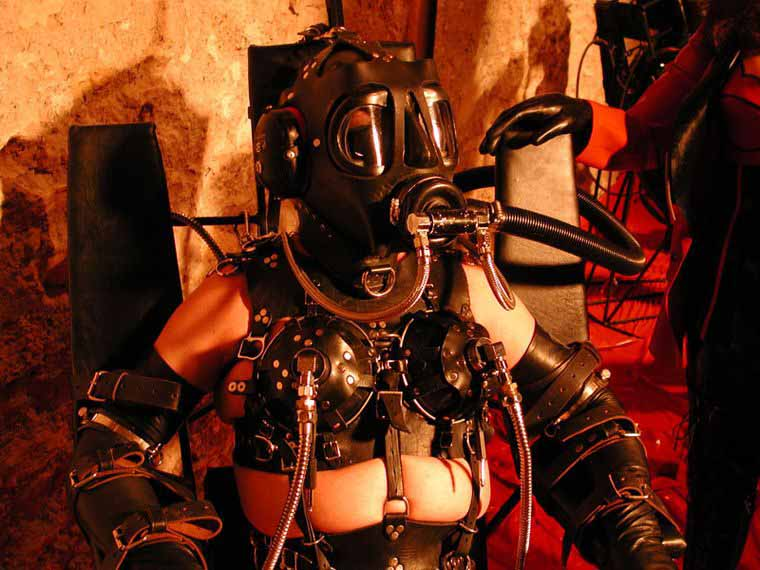 JG Leathers in a part of his "Créature"